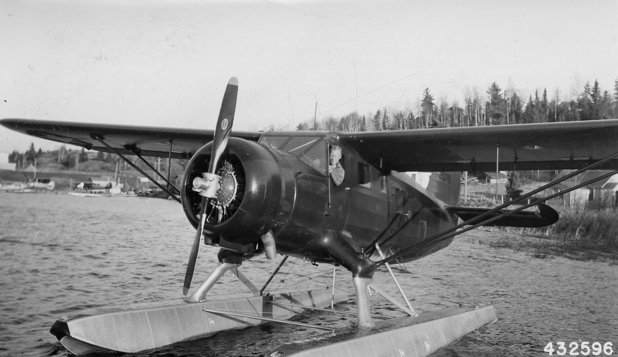 Scope and content: Original caption: Front view of Noorduyn Norseman plane. Taken at Ely, MN plane hangar dock.